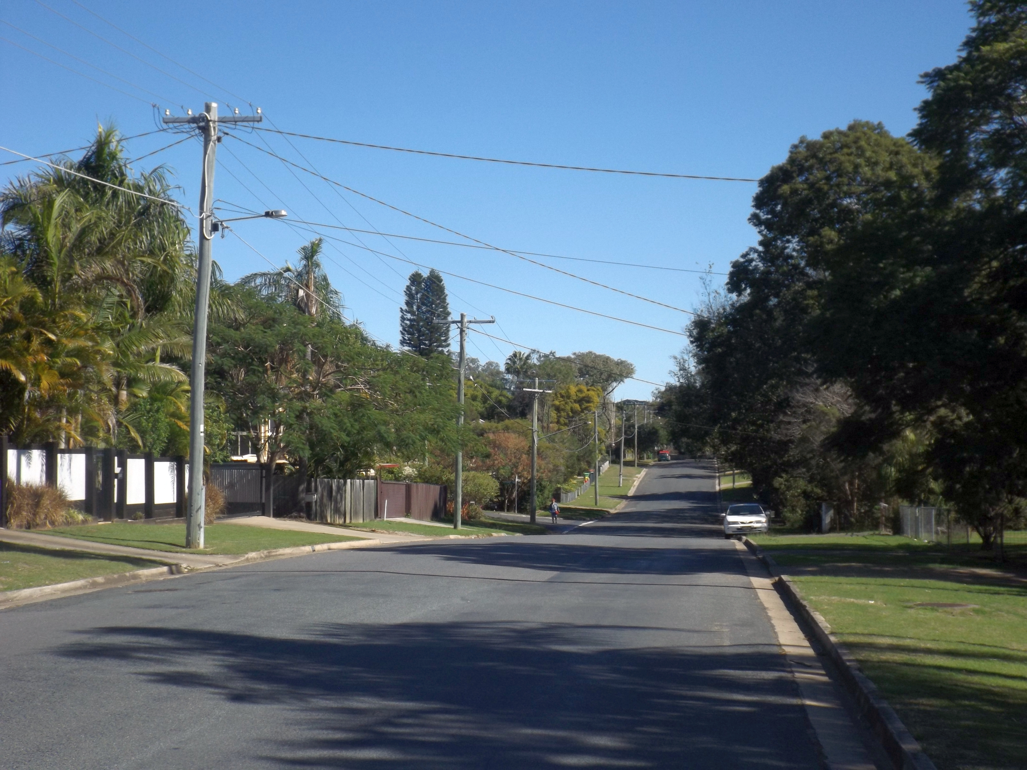 Photo of William Street West at Coalfalls in the City of Ipswich, Queensland, Australia.